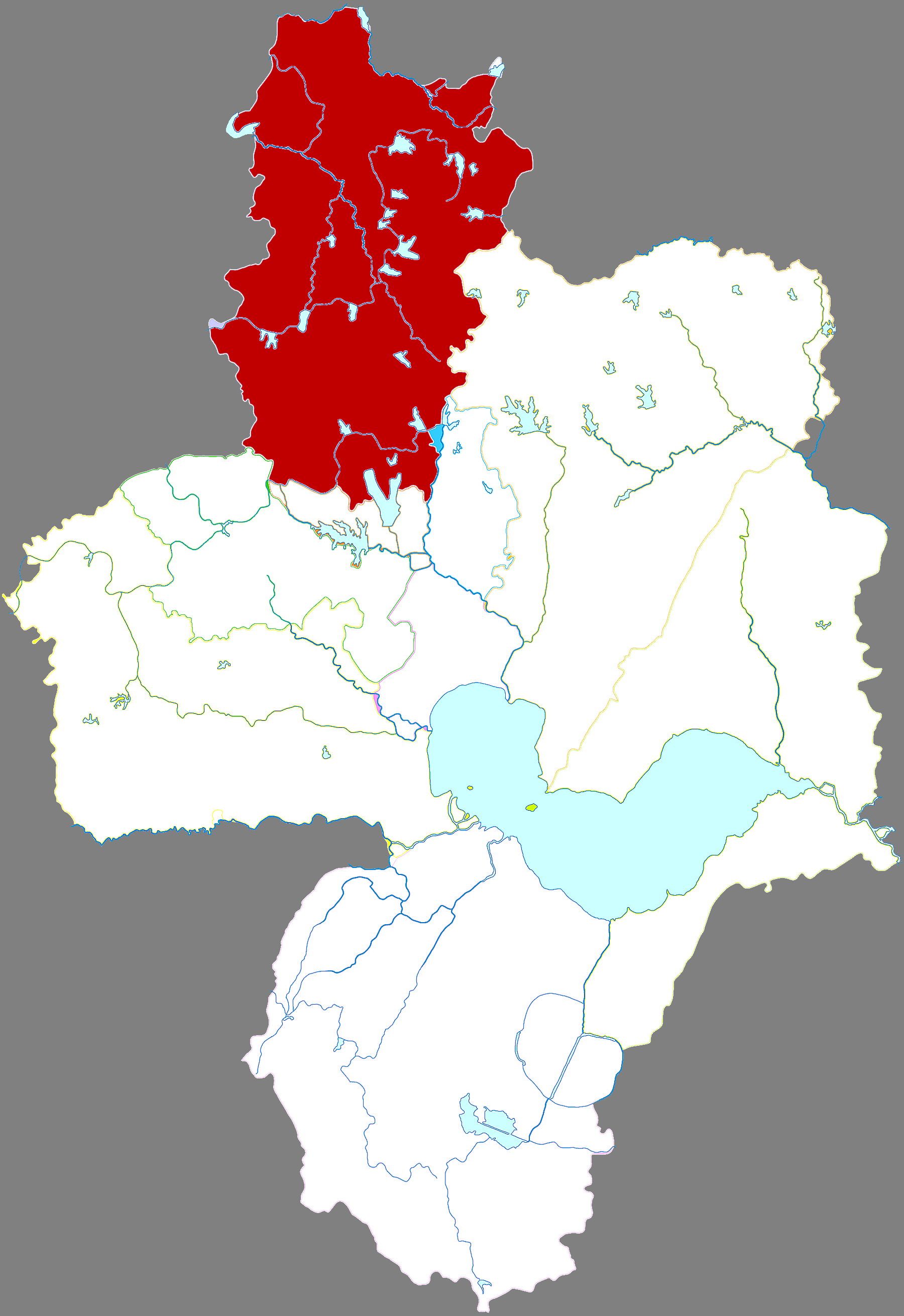 Location of Changfeng county in Hefei city, China